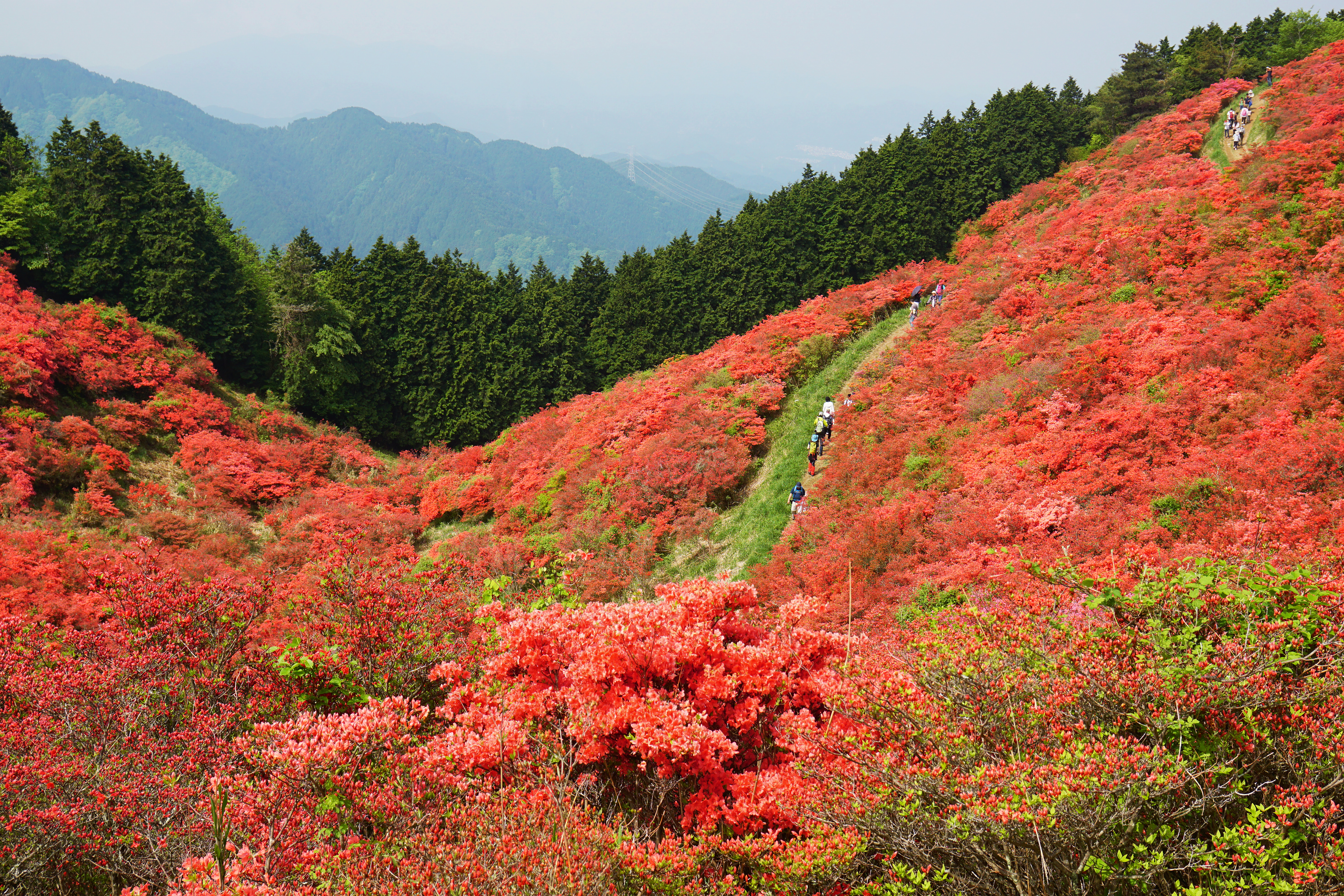 At Mount Yamato Katsuragi in Gose, Nara prefecture, Japan